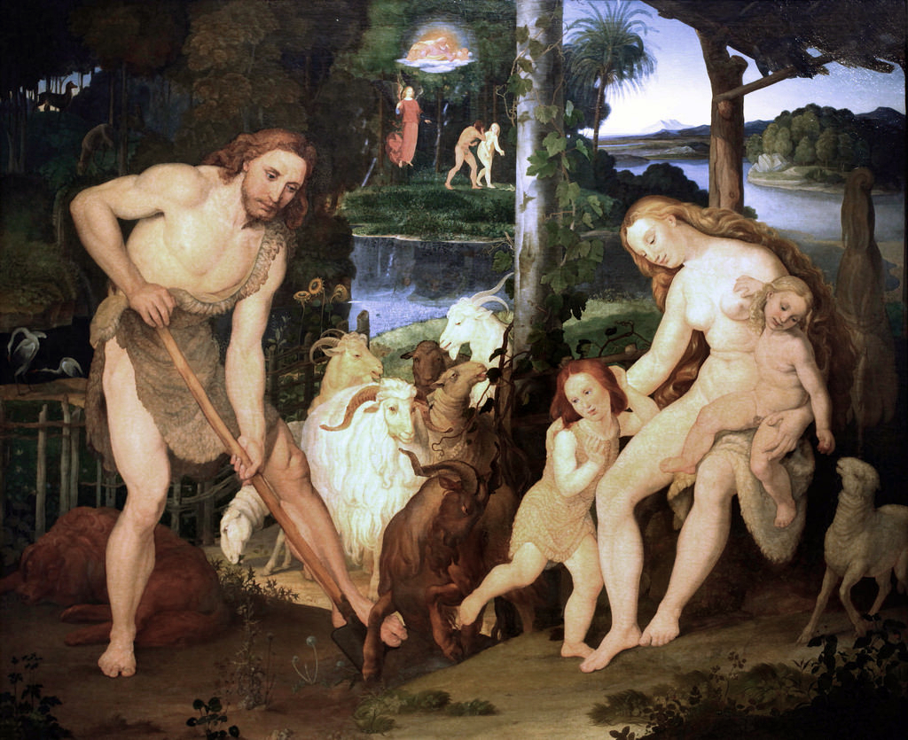 Adam and Eve after Expulsion from the Garden of Eden (c.1818)